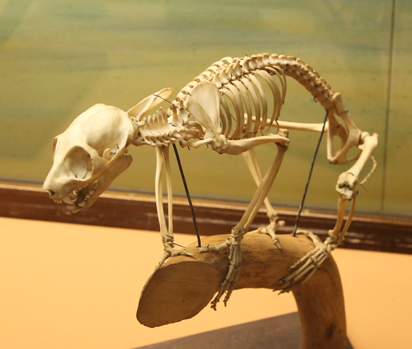 photo of the skeleton of a Perodicticus potto